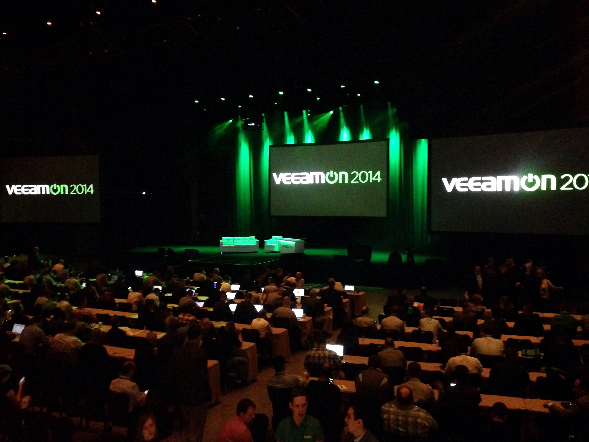 VeeamON conference hall